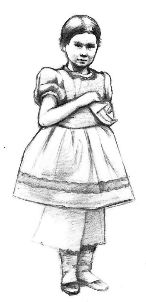 Personal artwork created by Brian York